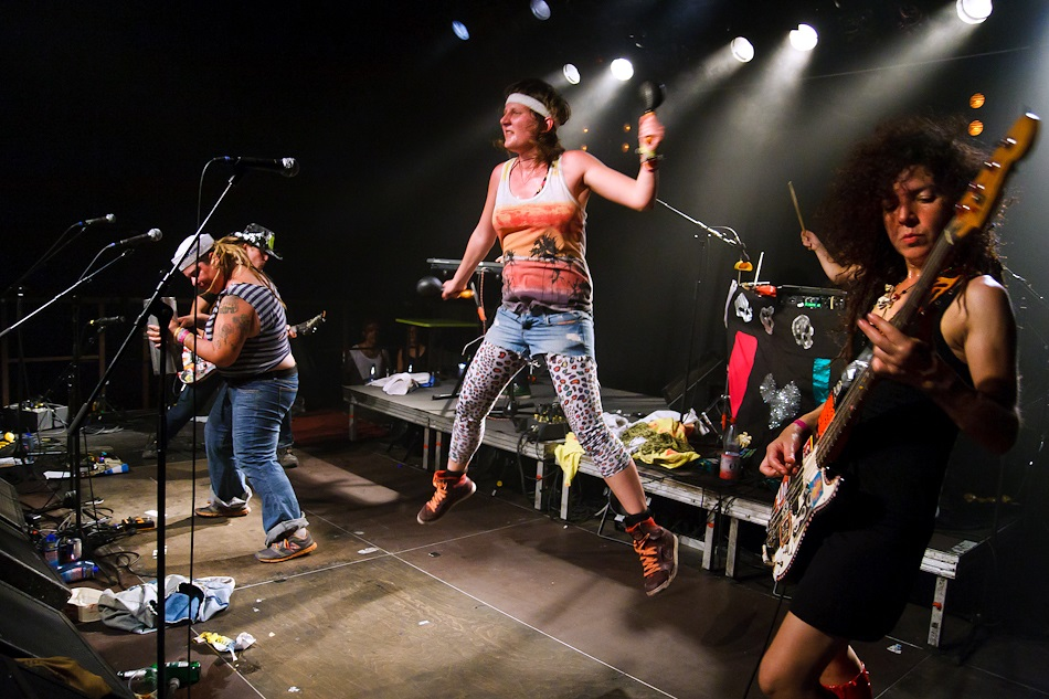 Kumbia in Kreuzberg